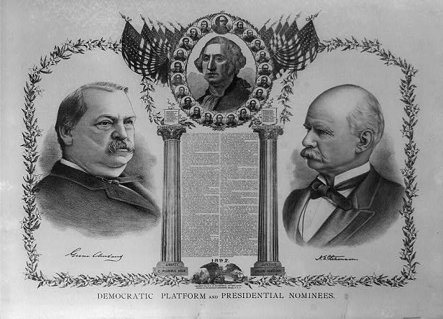 1892 Democratic Poster showing the Cleveland-Stevenson ticket.